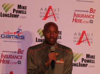 Mike Powell the current World record holder in the Long Jump announced that, at the age of 51, he will jump again in competition and attempt the break the World Masters record.